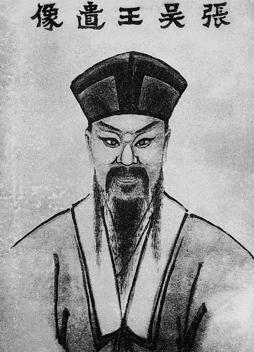 A portrait of Zhang Shicheng, one of the leaders of the Red Turban Rebellion.